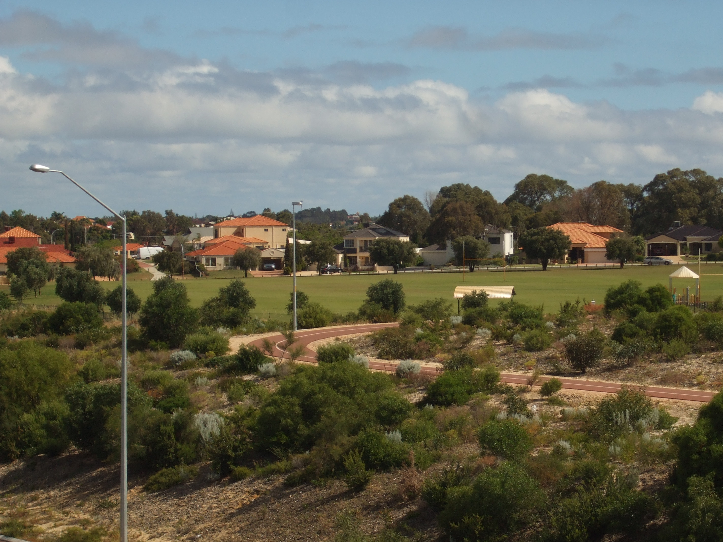 A view of the Joondalup Golf Resort in Connolly, WA, from Moore Drive.